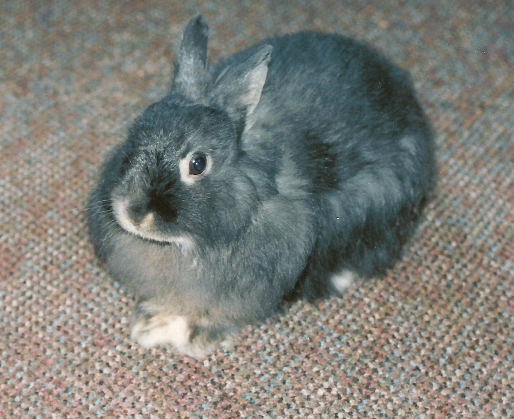 This is a picture of a Jersey Wooly rabbit. I made it myself. I made it on Thursday, August 17, 2006. You have permission to edit this file.